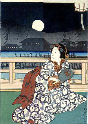 Ukiyo-e print by Ichiyōsai Yoshitaki, combined from two photos, one from 1989 (left) and the other from 2001 (right) to show the effects of display lighting on the ink in the print, which has faded on the right